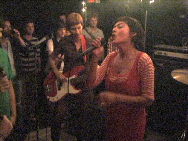 Finally Punk performing live at Cake Shop NYC - July 6 2006